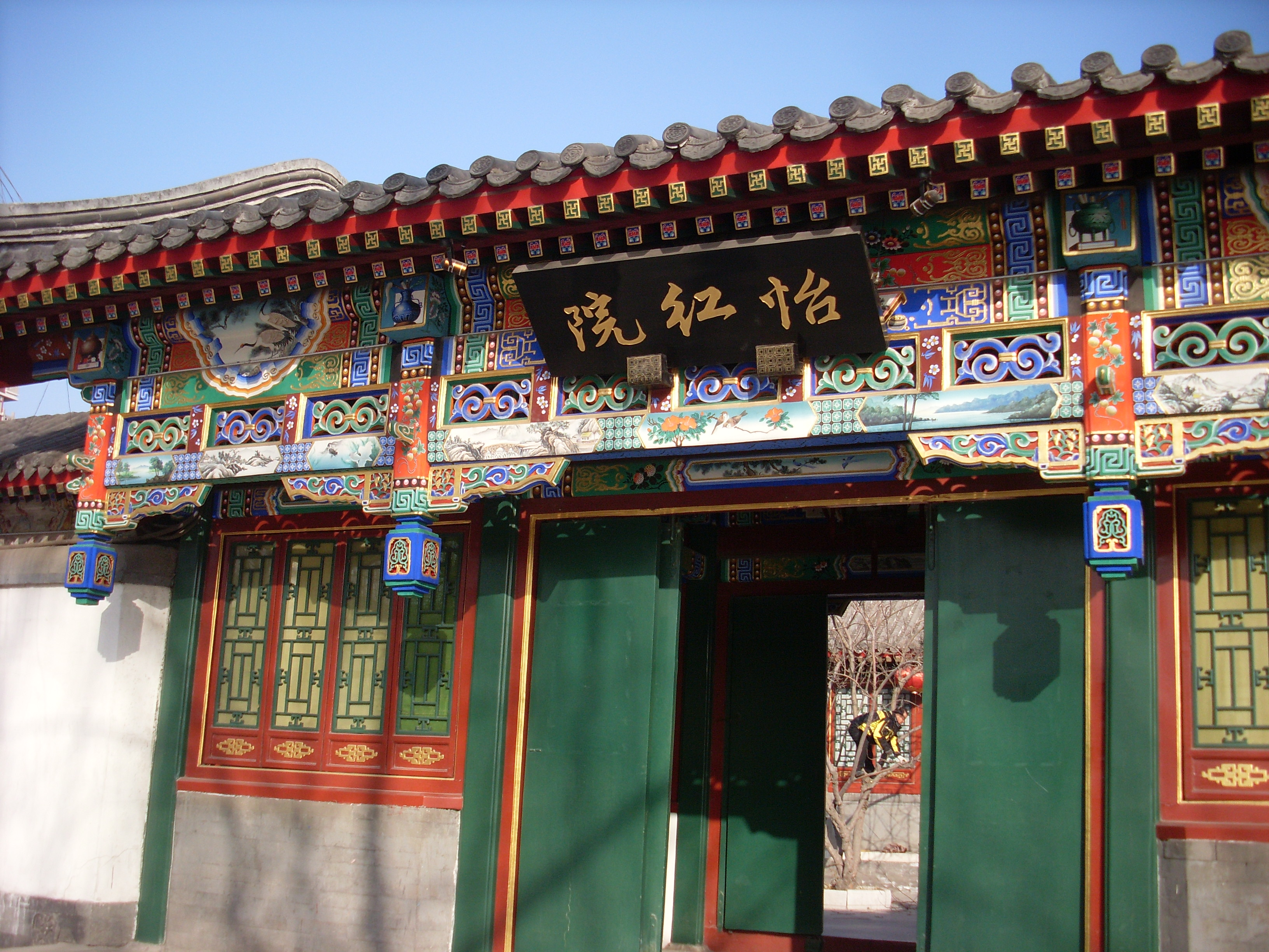 Yihongyuan in Beijing Daguanyuan